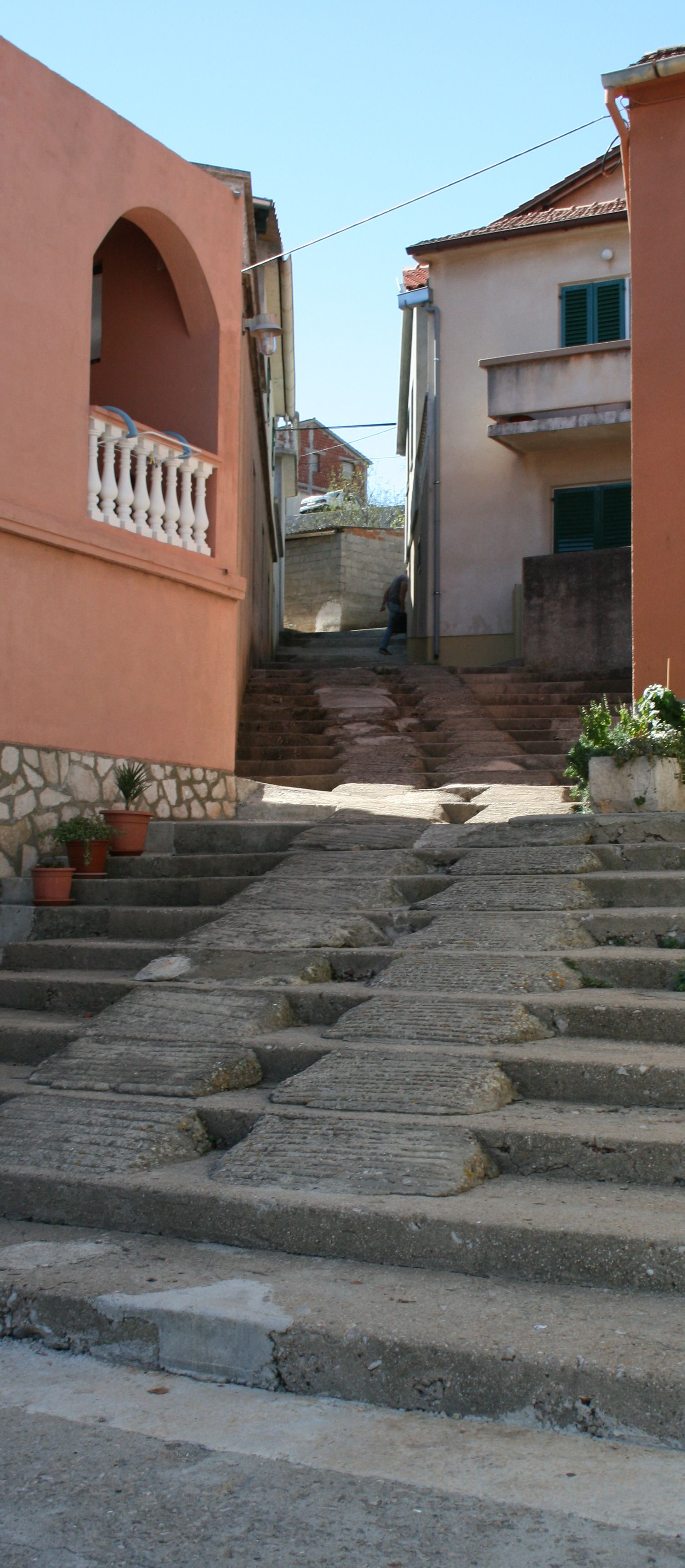 Sali running errands.